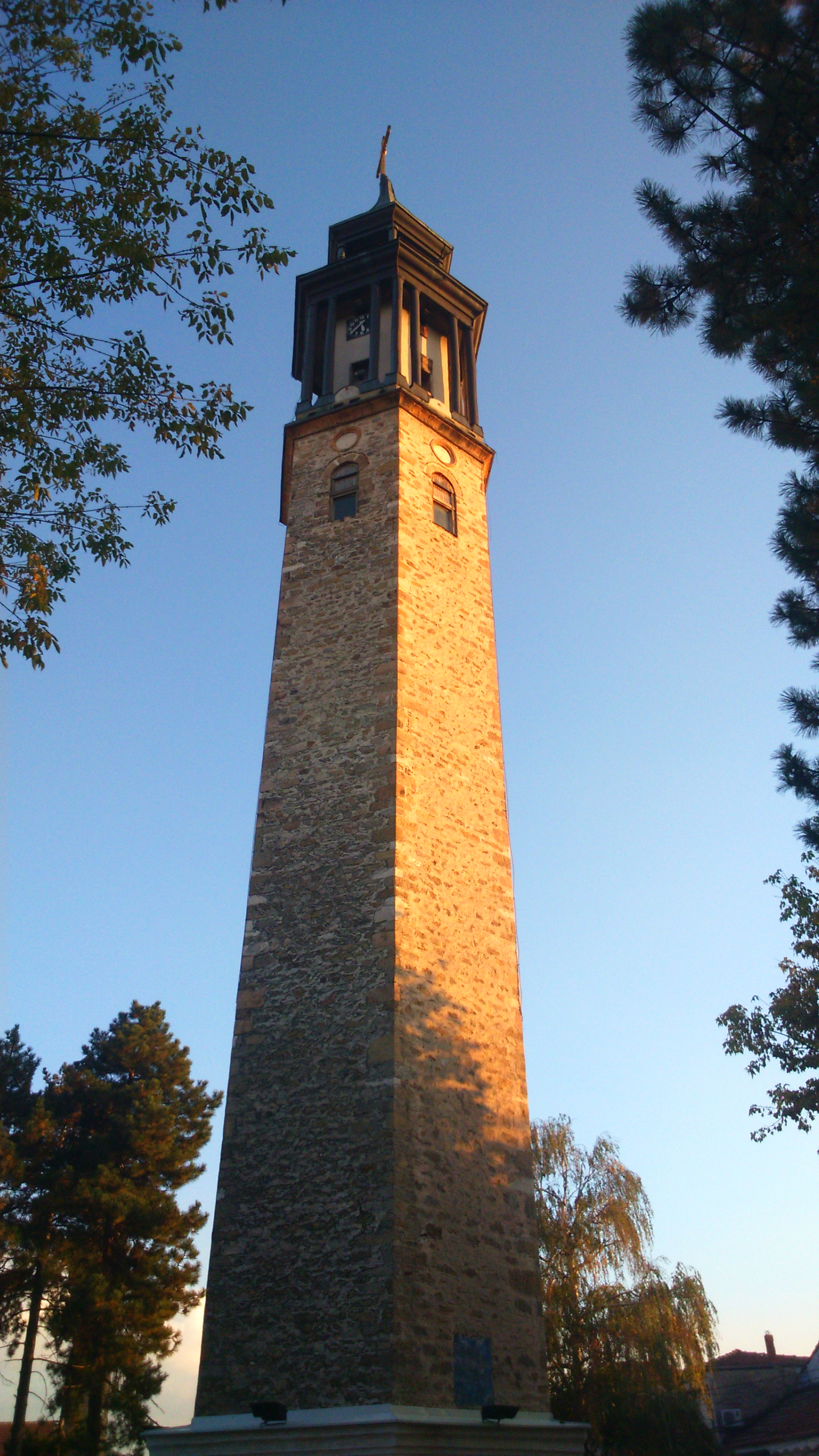 Clock Tower (Prilep)